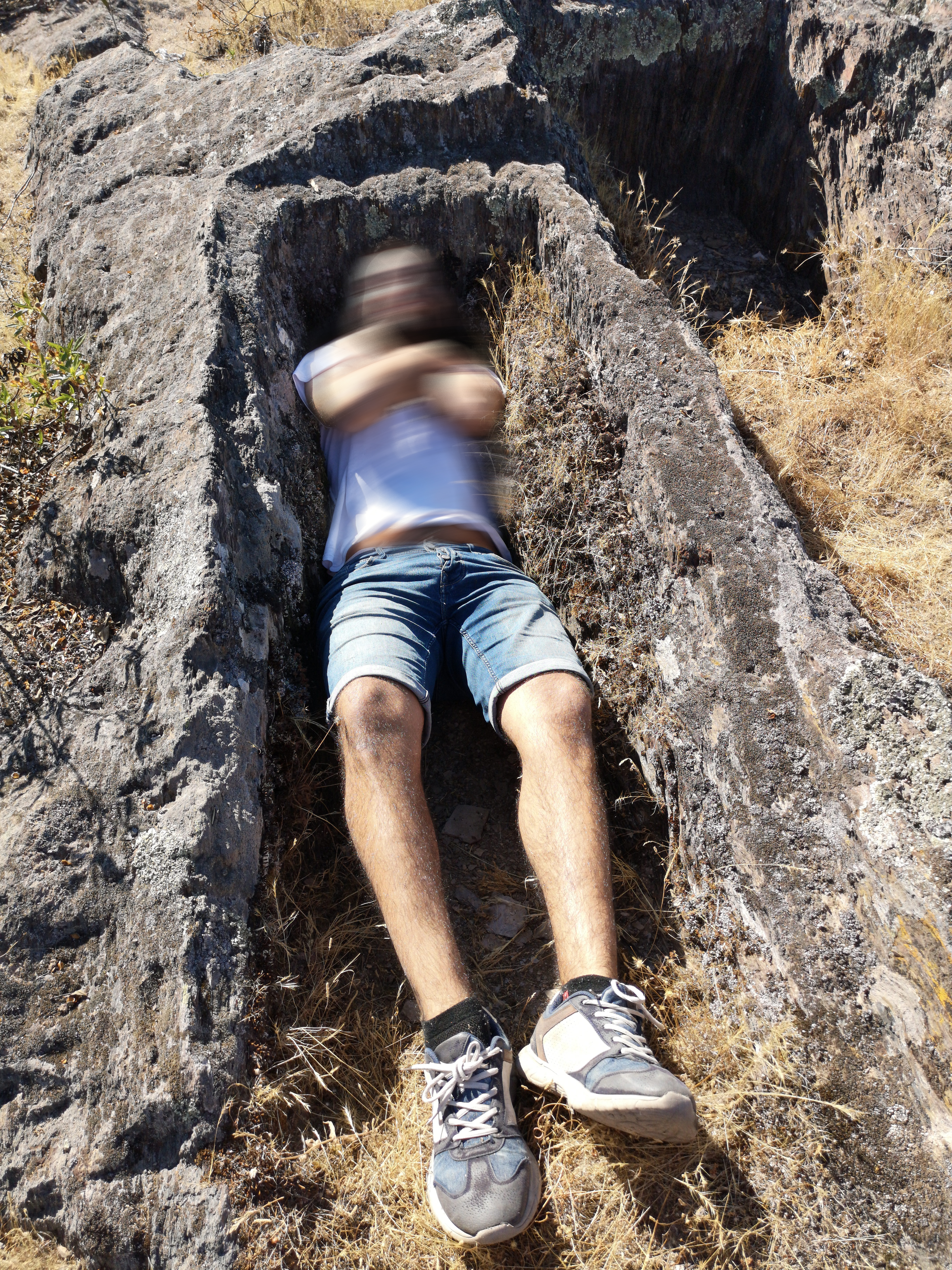 Una de las tumbas de la Contienda